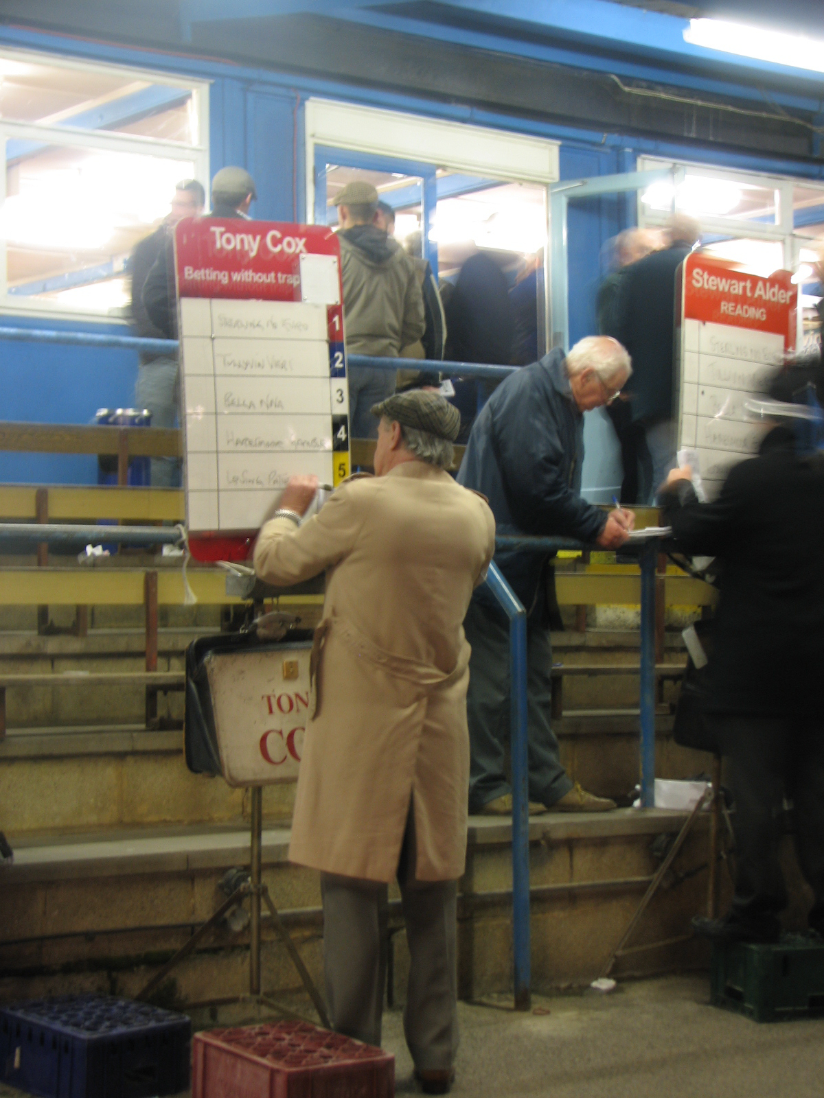 Bookmakers at the dog races in Reading, UK